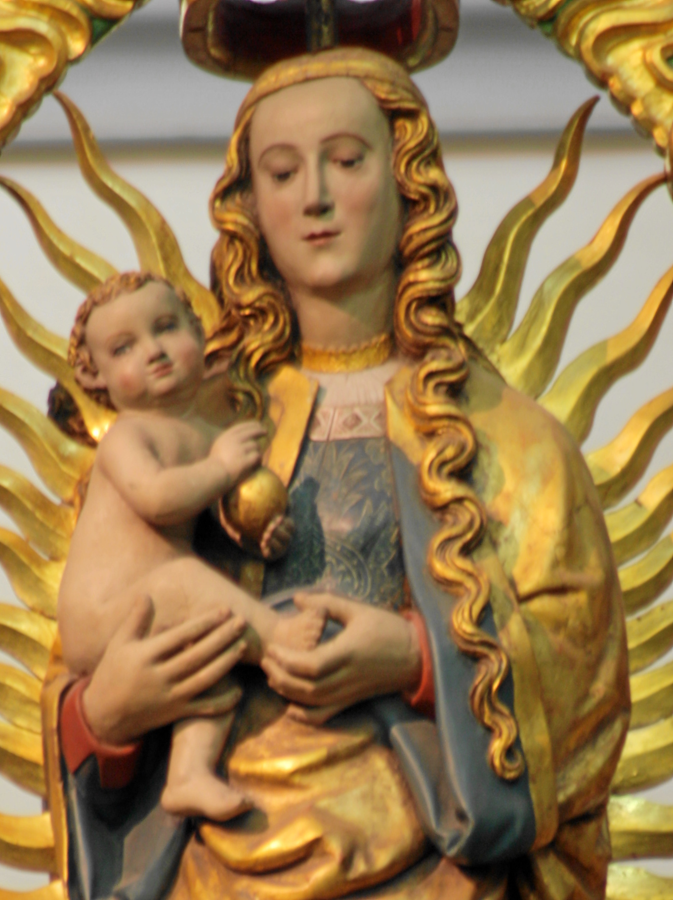 "Bergischer Dom" in Odenthal-Altenberg, Germany. Madonna, around 1530.